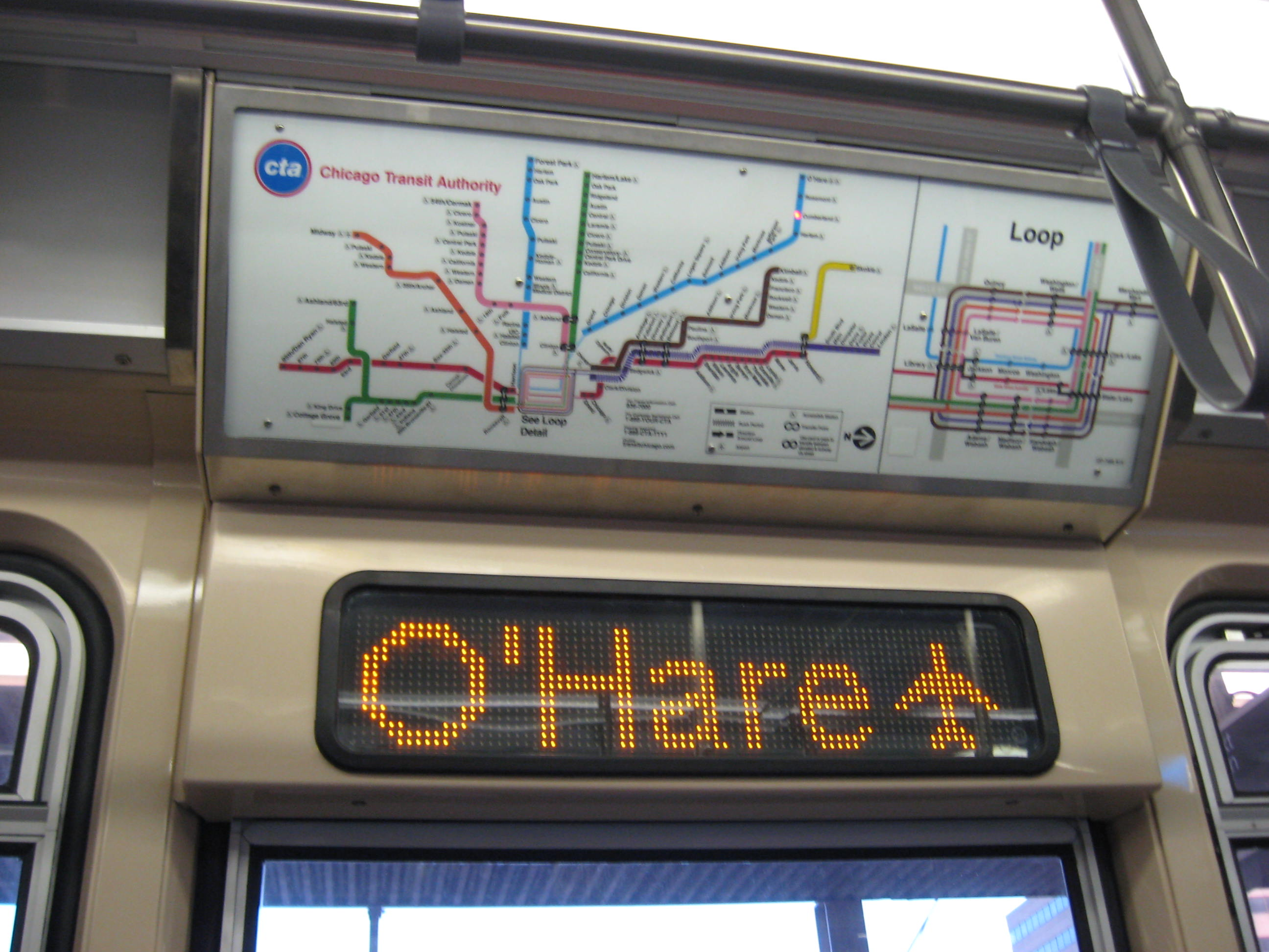 New digital map and destination sign in the 5000 series cars of the Chicago 'L'